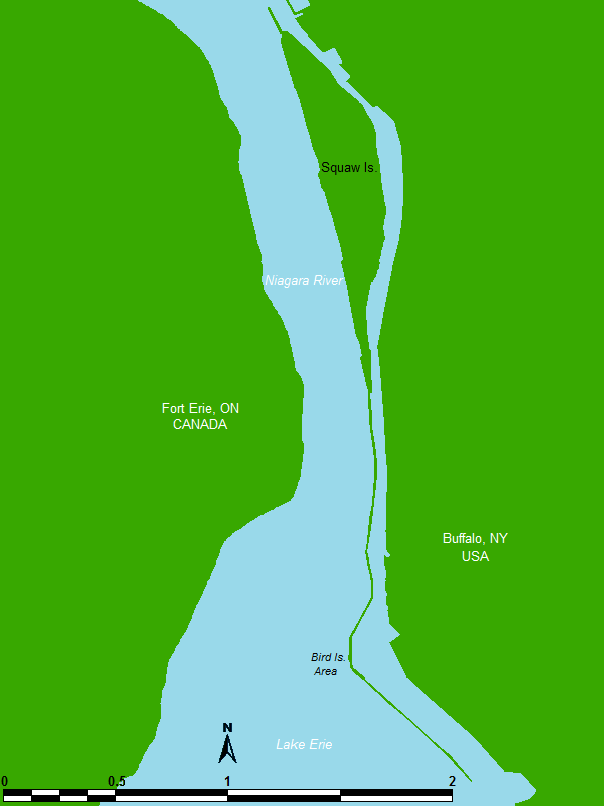 Map showing the location of Squaw Island and Bird Island between Buffalo, NY and Fort Erie, ON. Other information For geographic reference only. Not for navigational purposes.